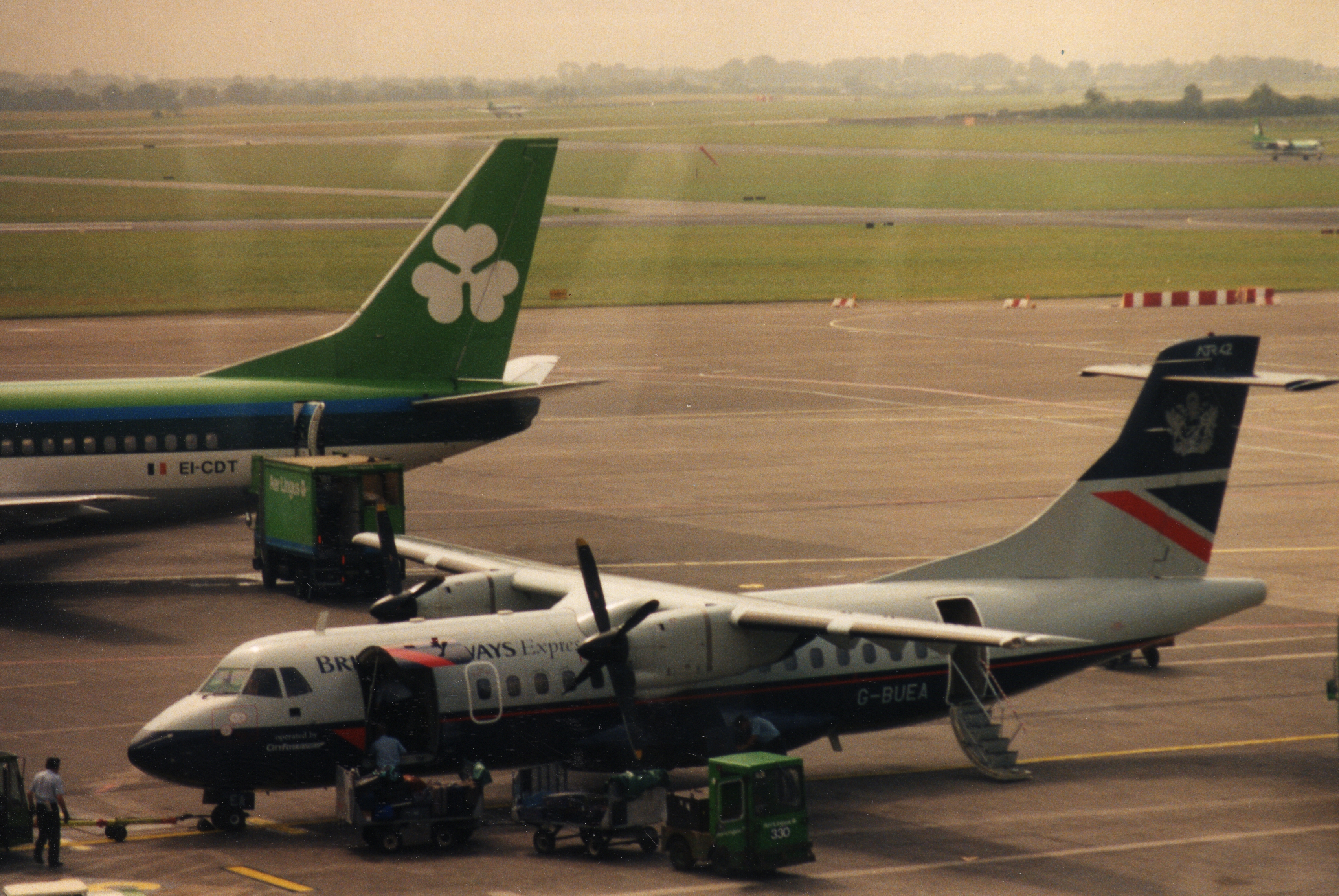 Aer Lingus (EI-CDT) Boeing 737-500 aircraft and British Airways (G-BUEA) ATR 42-300 aircraft, Dublin Airport, Dublin, Republic of Ireland, July 1994